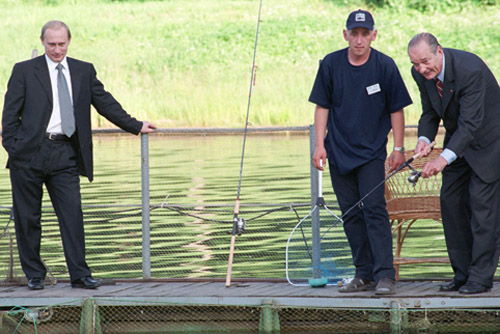 ST PETERSBURG. President Vladimir Putin fishing with French President Jacques Chirac at the Russkaya Rybalka restaurant.